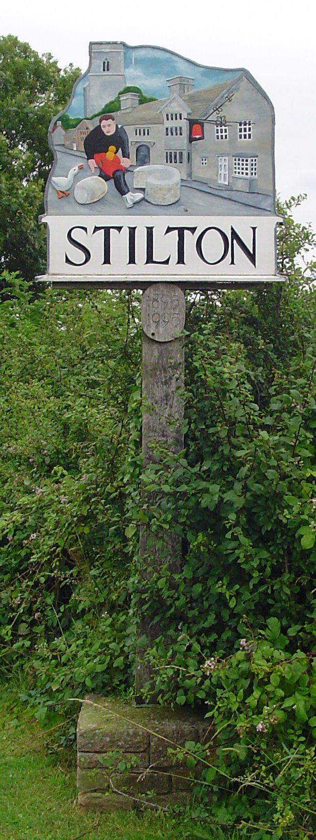 Signpost in Stilton